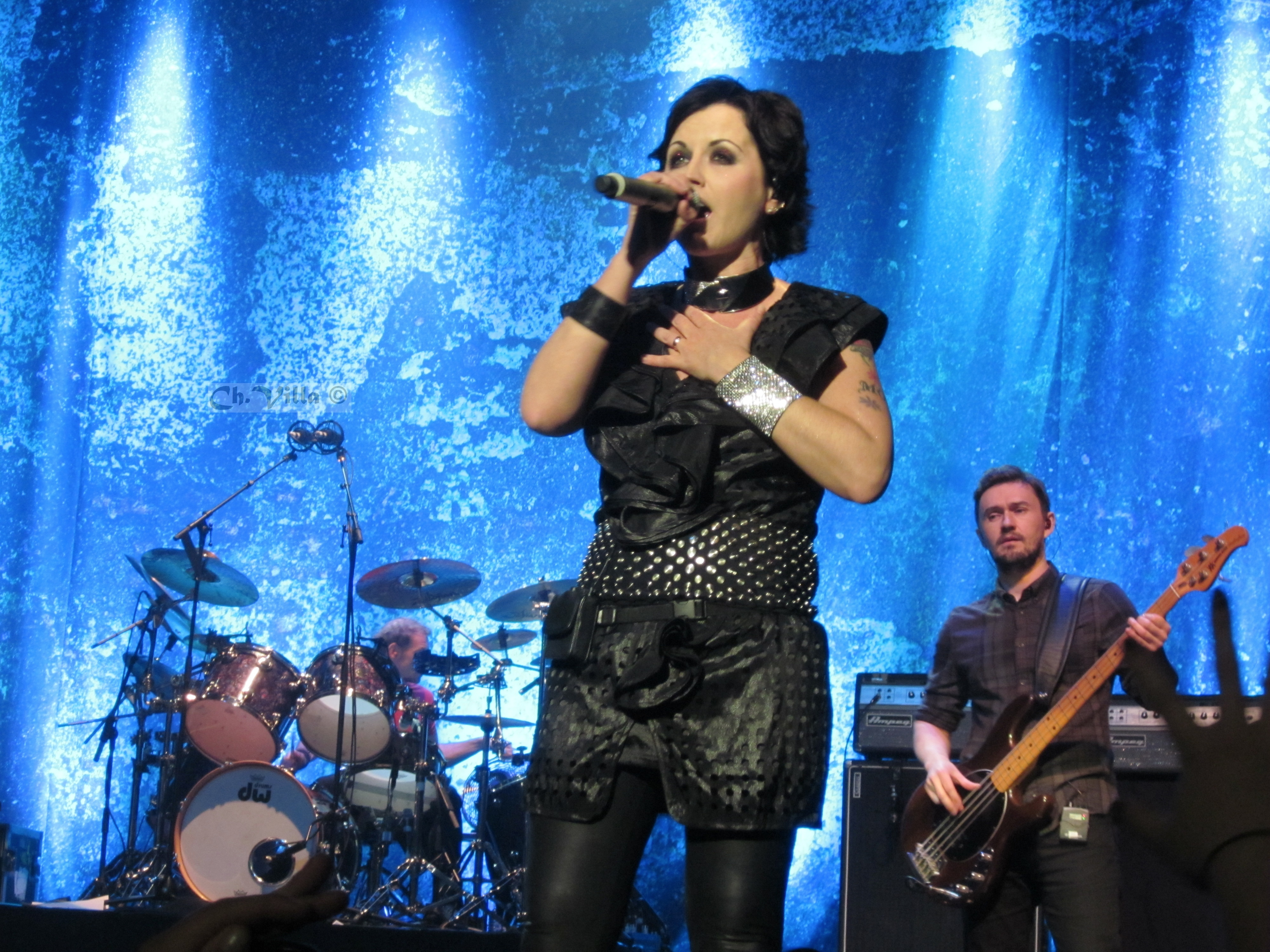 The Cranberries Live @ Montreal16